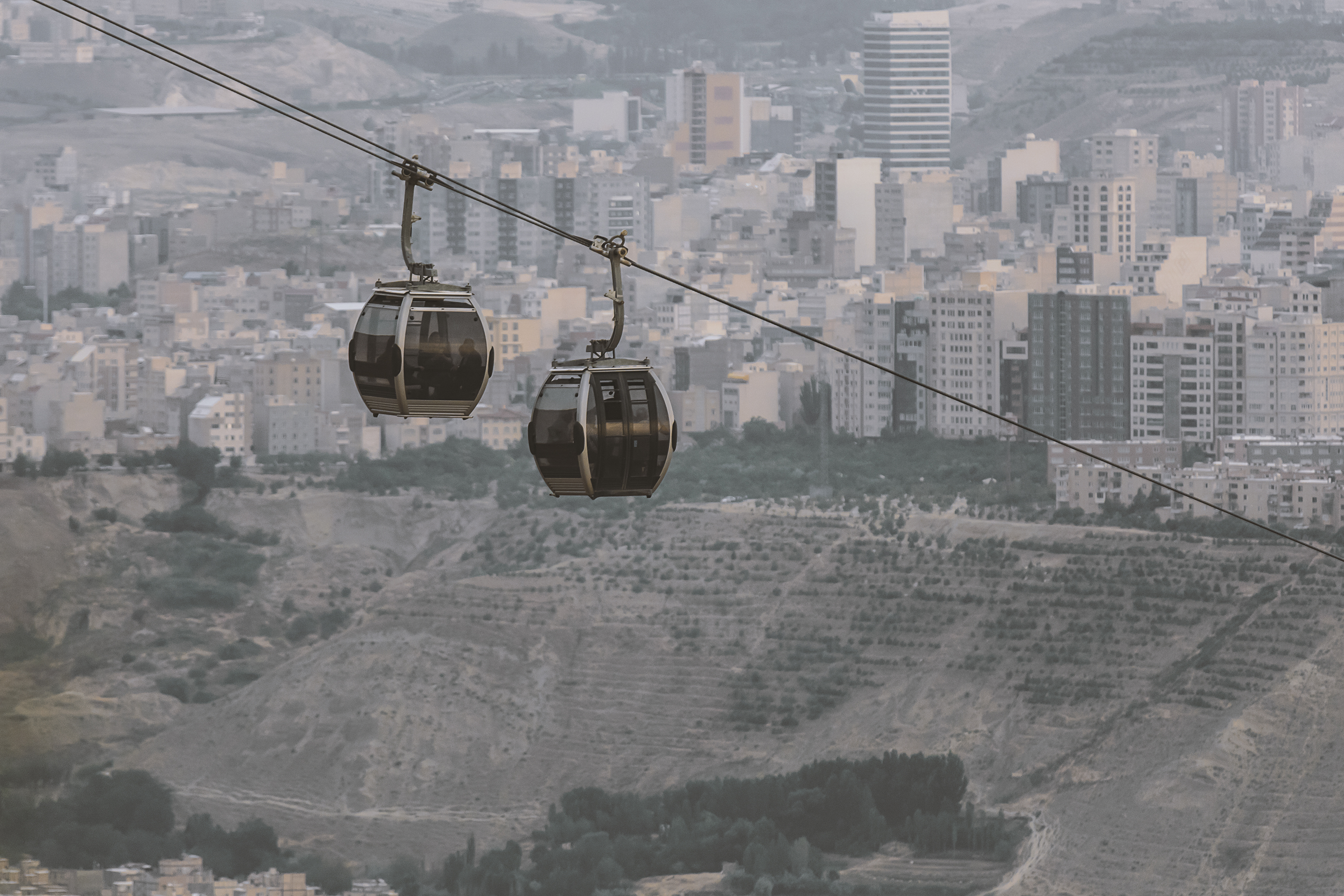 Tabriz is the most populous city in northwestern Iran, one of the historical capitals of Iran and the present capital of East Azerbaijan Province.